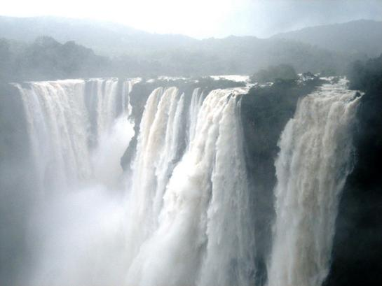 Author Kiran Sagara is my friend and he has given me full permission to use the photo wherever I want.